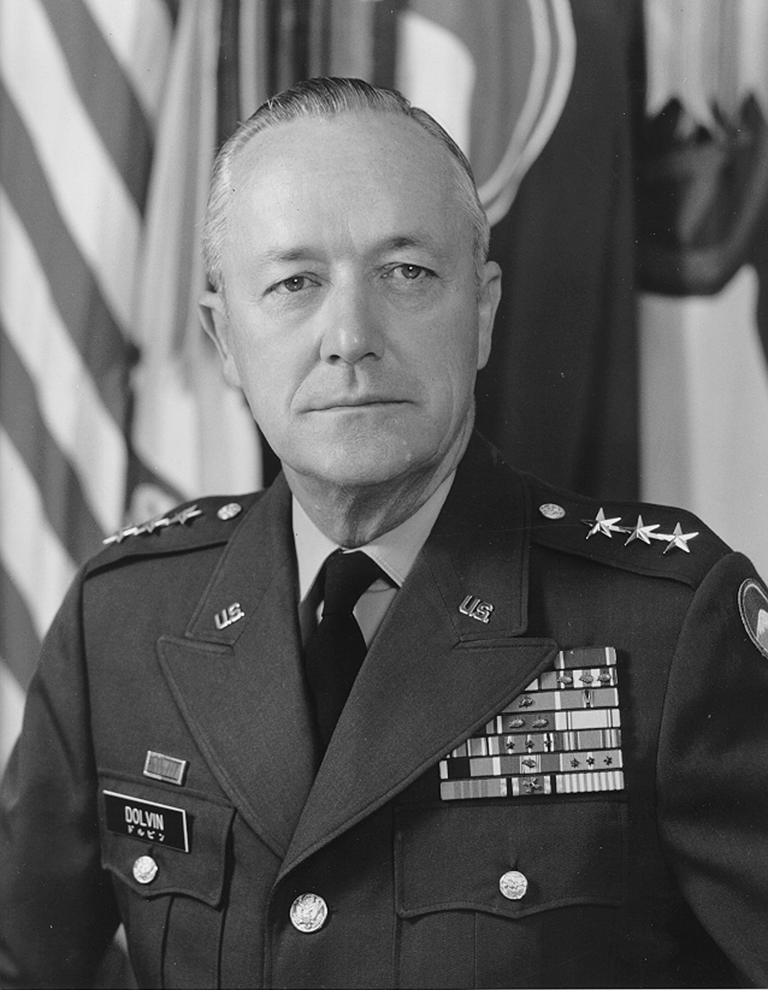 Lt General. Welborn Griffin Dolvin (United States Army)